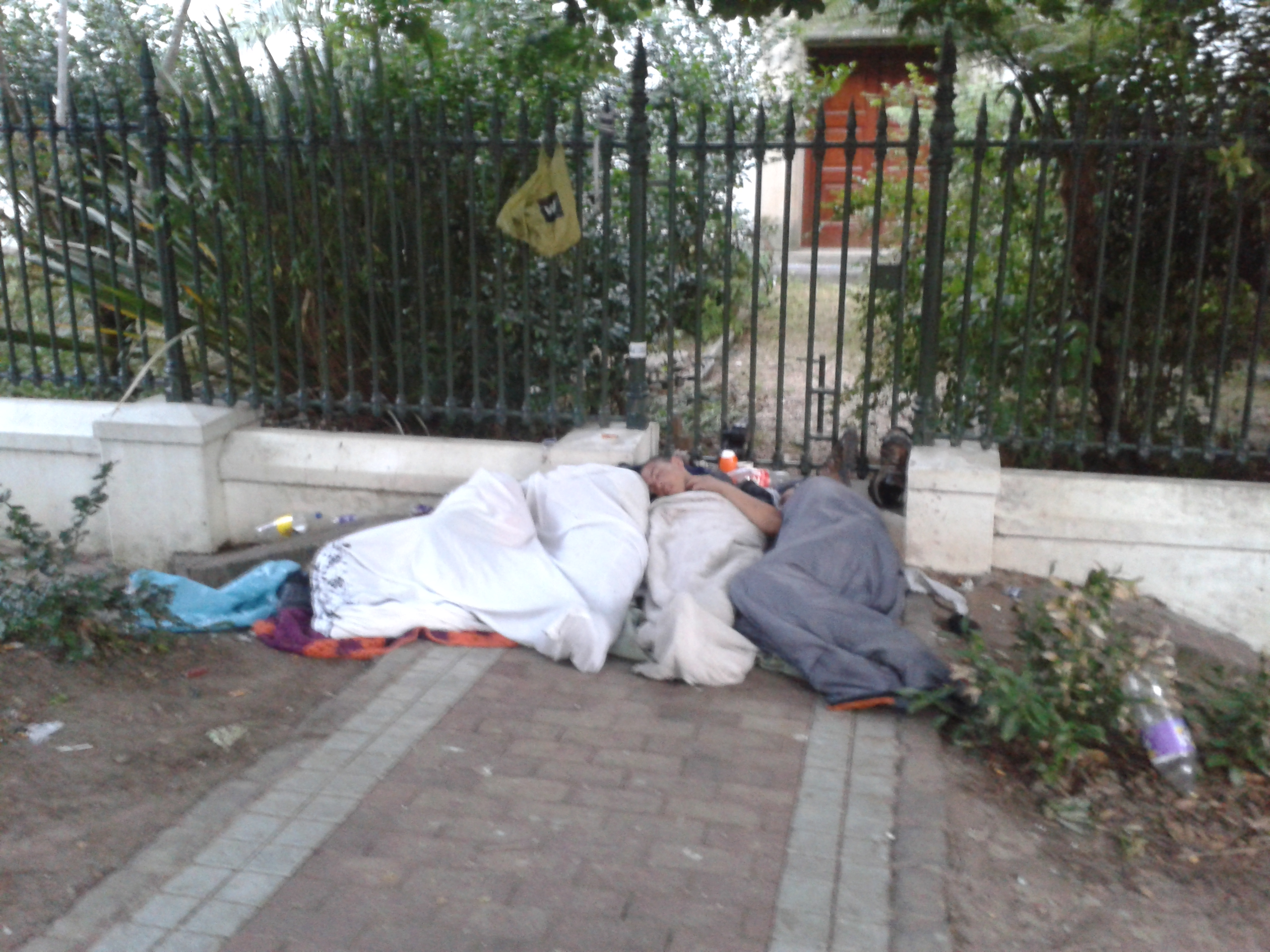 Street homeless people in gardens, Cape Town, South Africa.